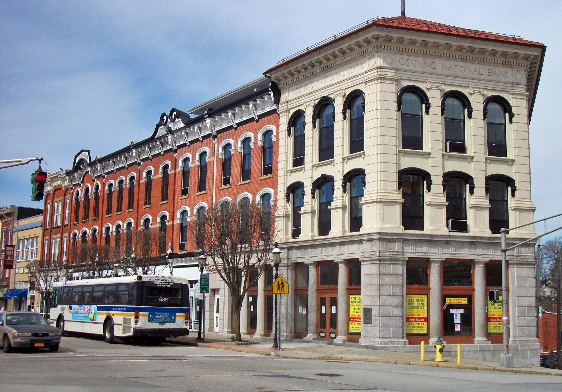 Barlow Block, including former Ossining National Bank building, all contributing properties to downtown historic district, Ossining, NY, USA